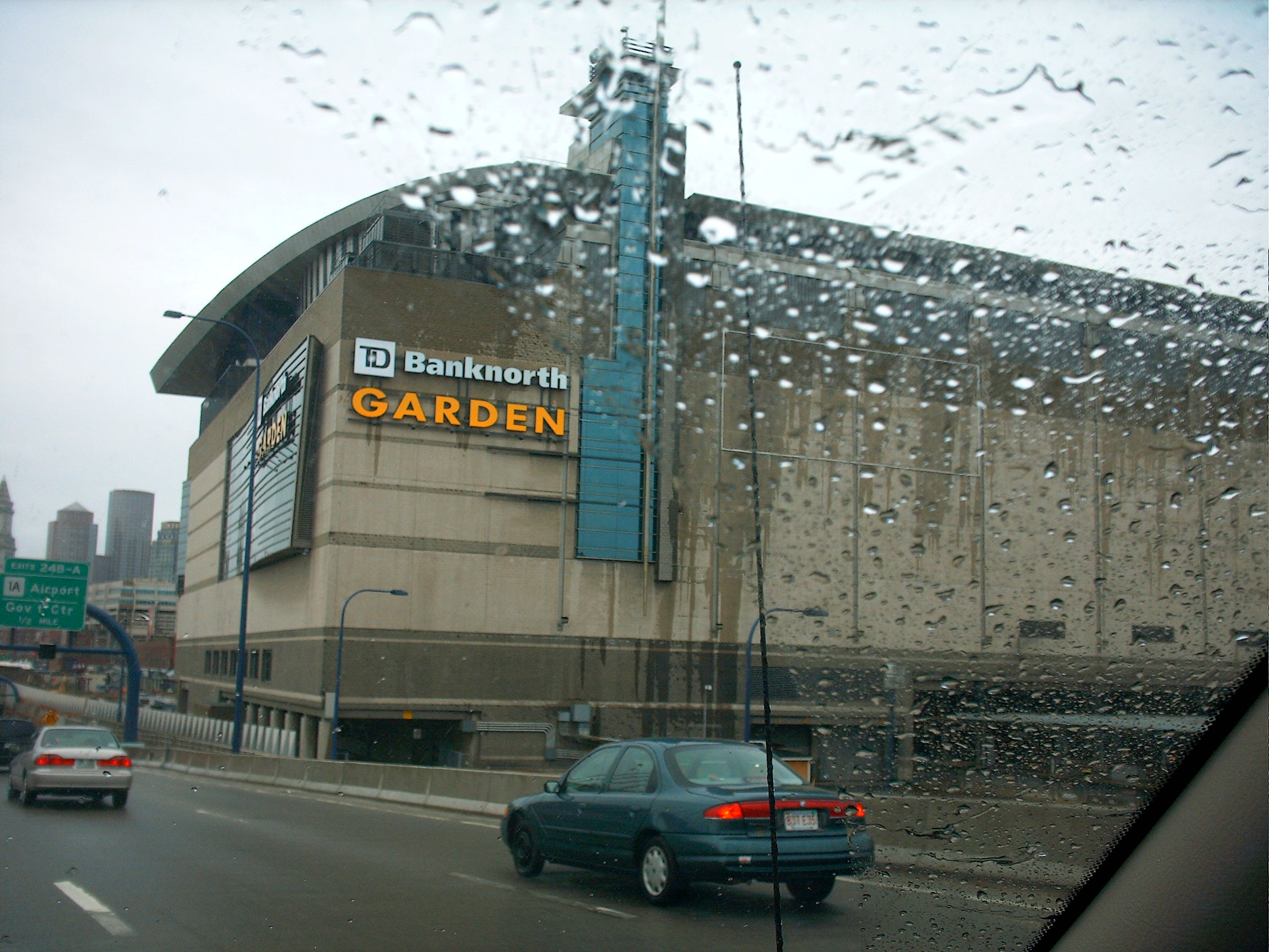 TD Garden in car covered by rain